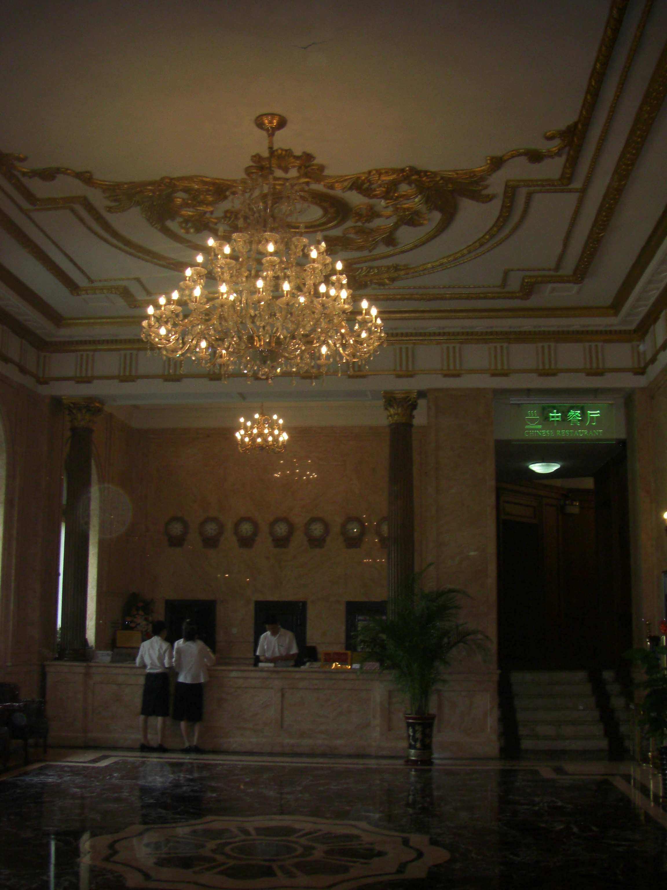 Dalian Yamato Hotel Inside the entrance